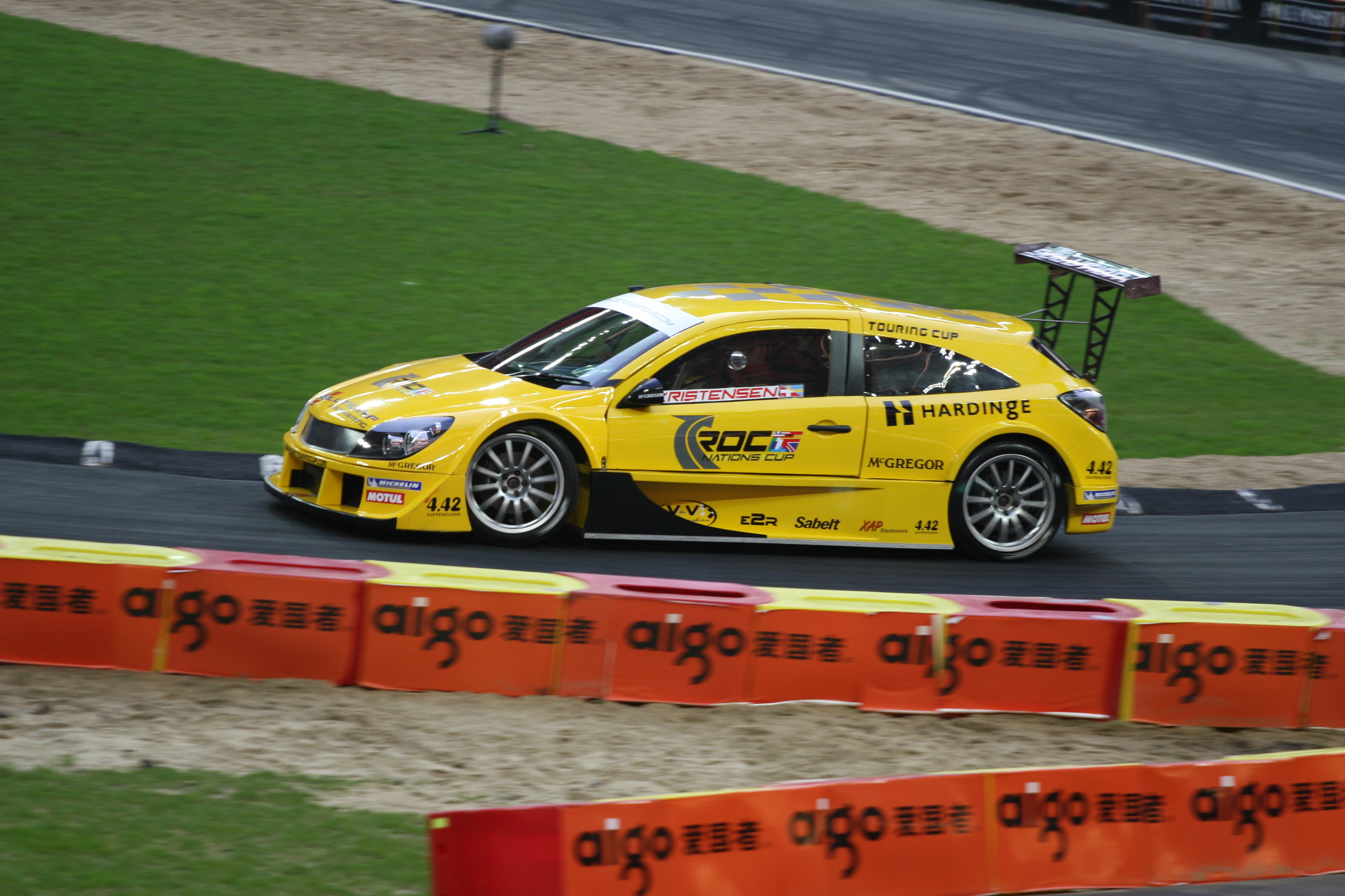 Tom Kristensen driving a Solution F at the 2007 Race of Champions at Wembley Stadium.